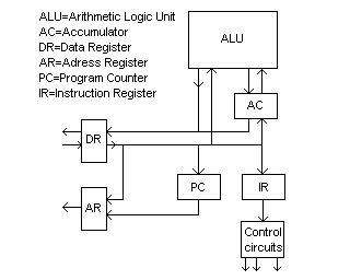 CPU architecture